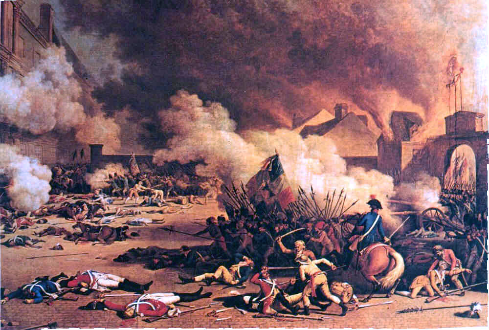 Depiction of the storming of the Tuileries Palace on 10 august 1792